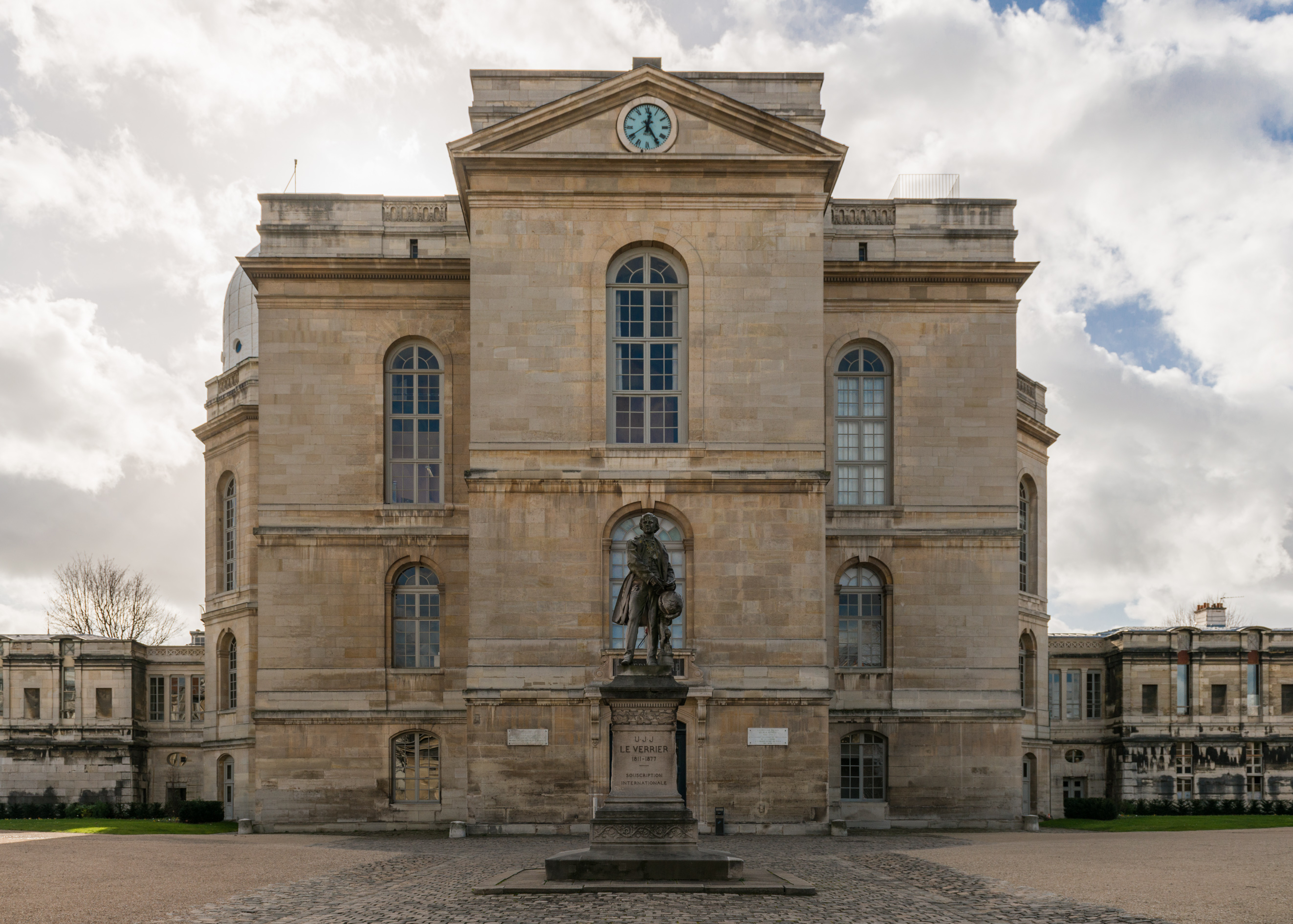 The Paris Observatory as seen from north